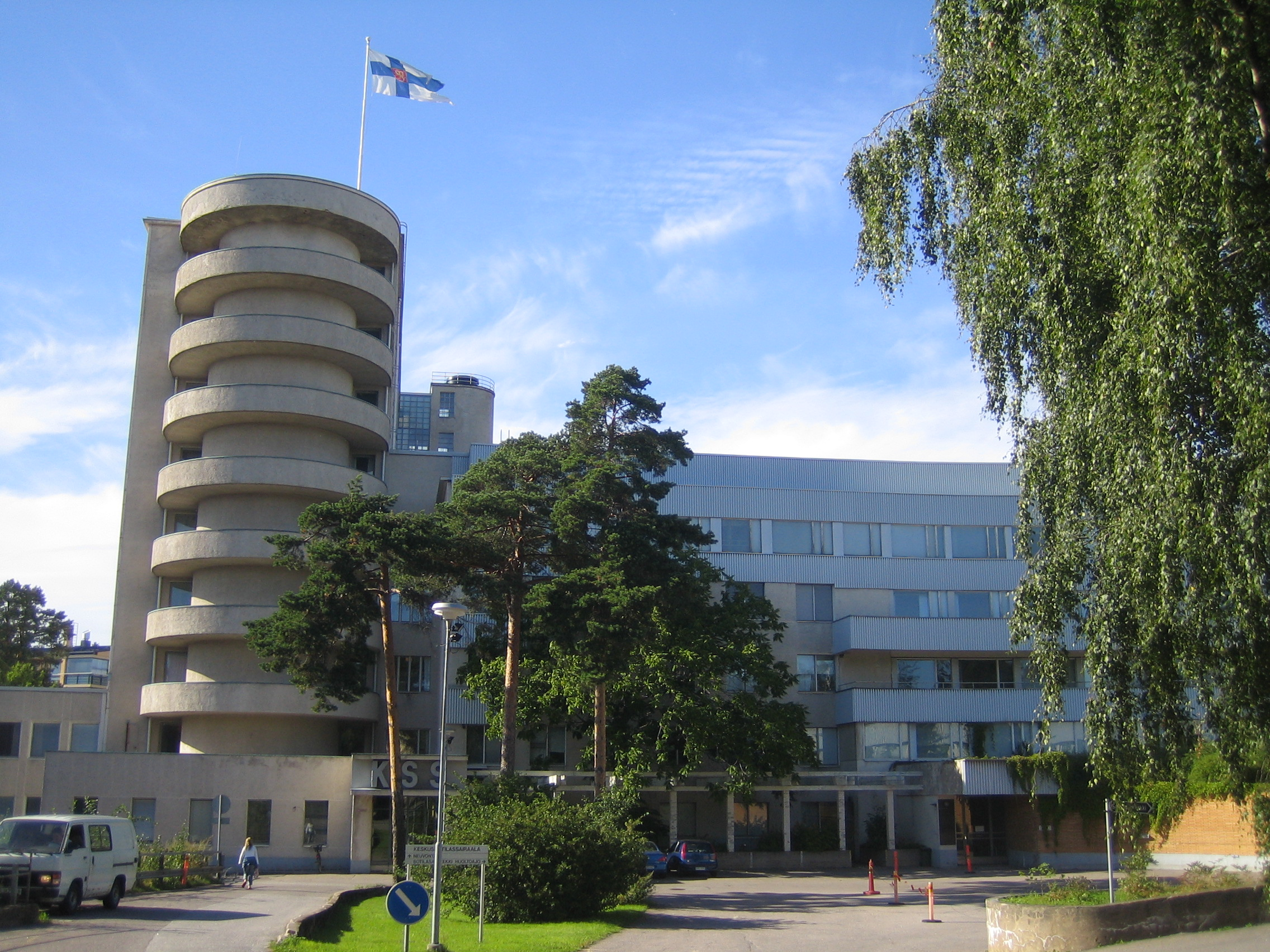 Tilkka, central military hospital, Helsinki, Finland. Built 1936. Architect: Olavi Sortta.